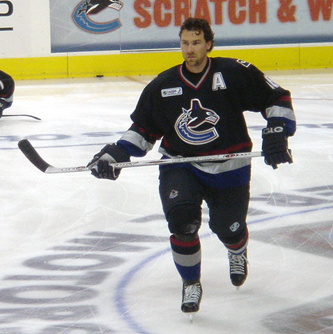 Vancouver Canucks legend Trevor Linden